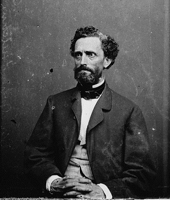 John Hutchins from Brady Handy Collection.